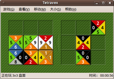 Screenshot of TetraVex